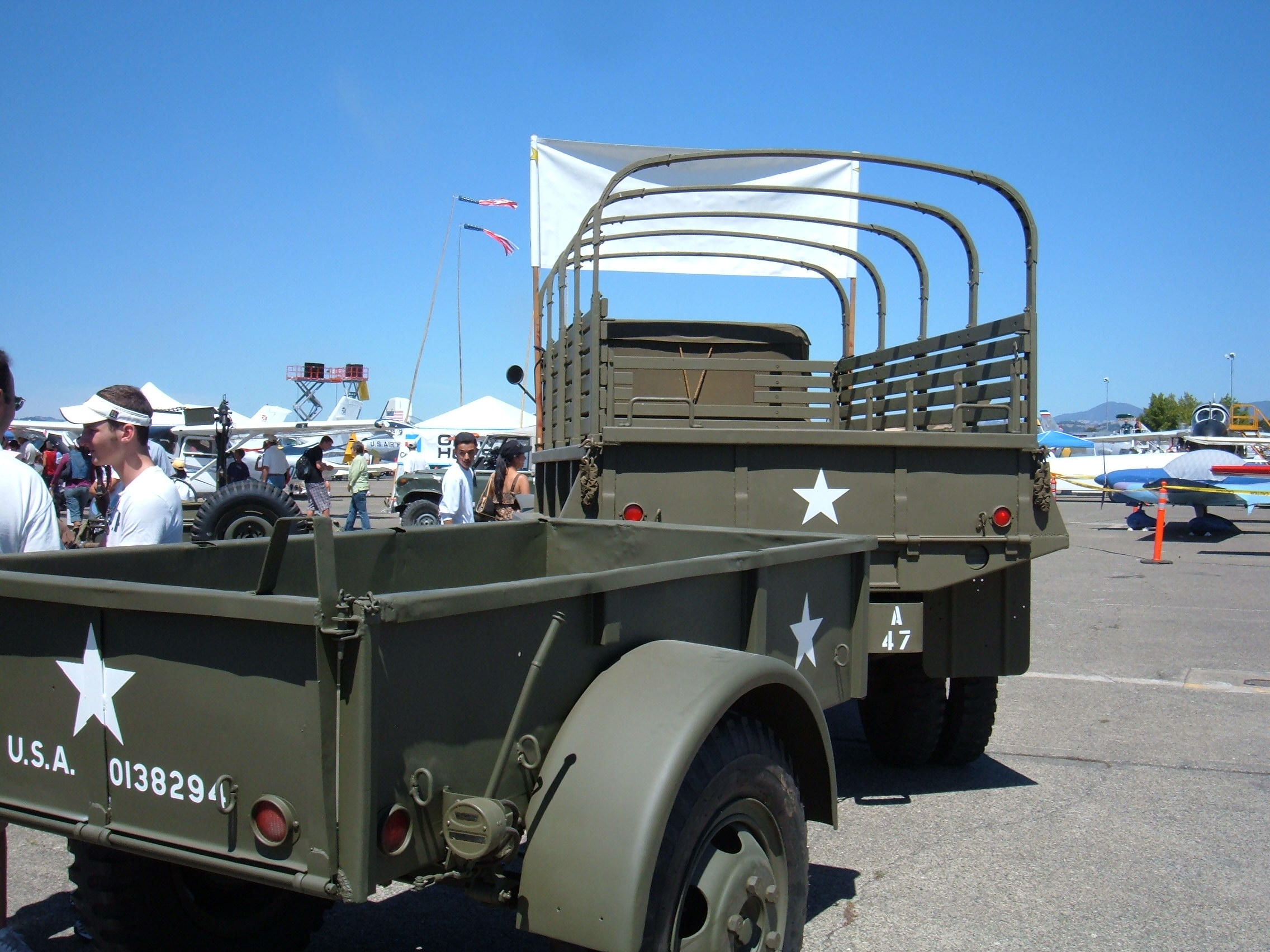 1942 Ben-Hur trailer attached to a Chevrolet 1 1/2 ton truck at the Wings over Wine Country 2007 air show at the Charles M. Schulz - Sonoma County Airport in Sonoma County, California.